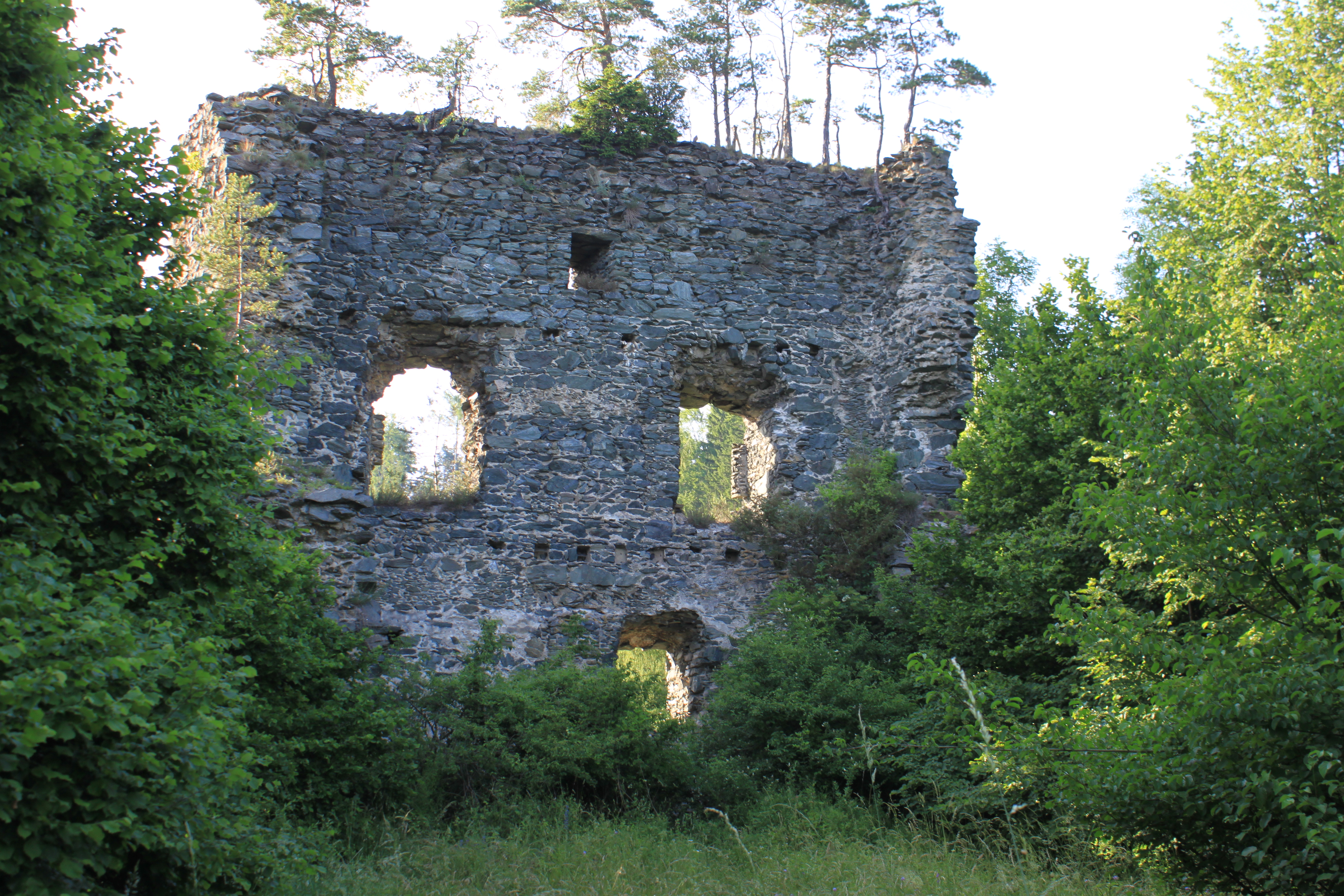 Castle ruined